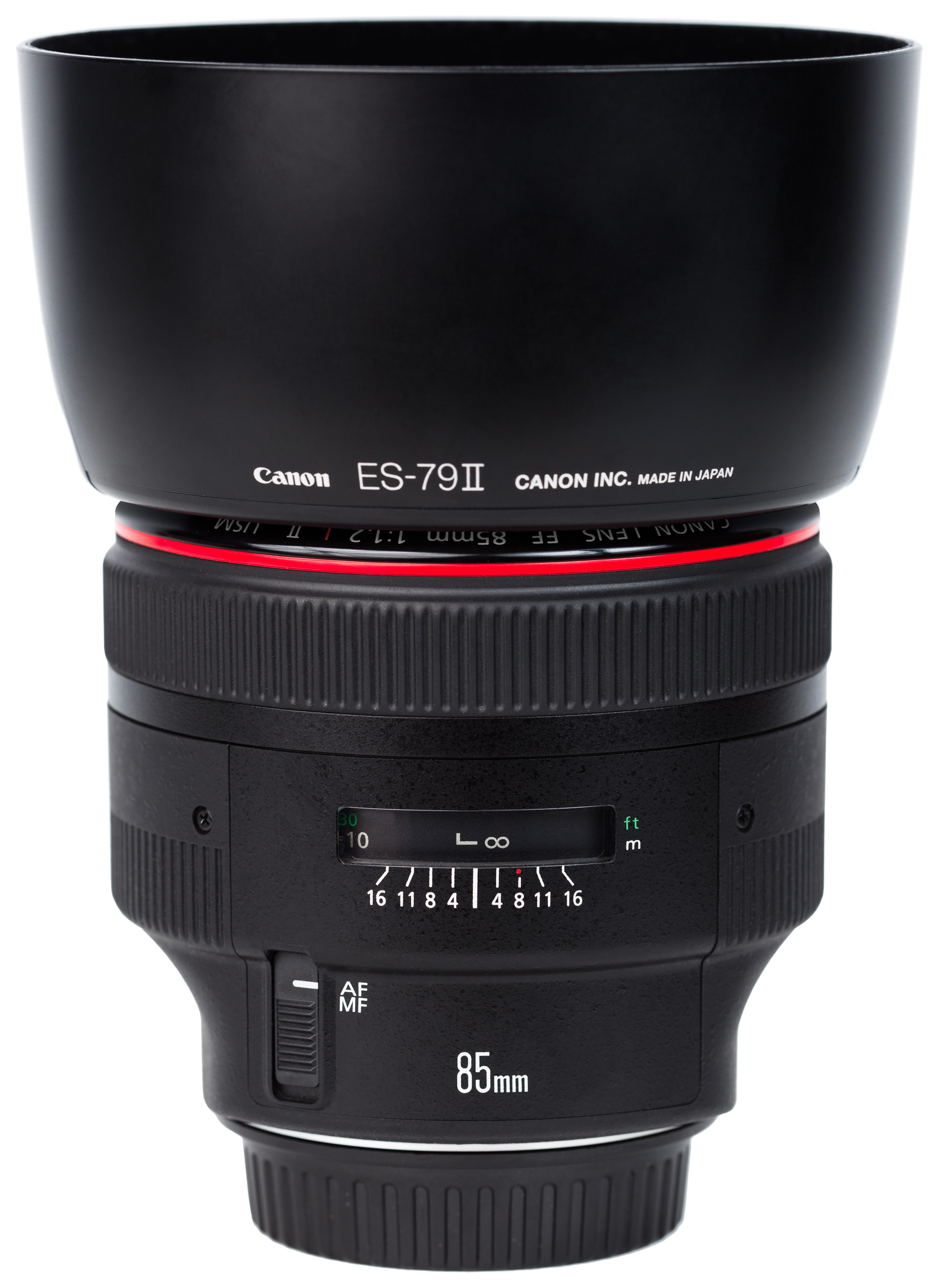 Canon EF 85mm f/1.2L II USM lens with ES-79II Hood.